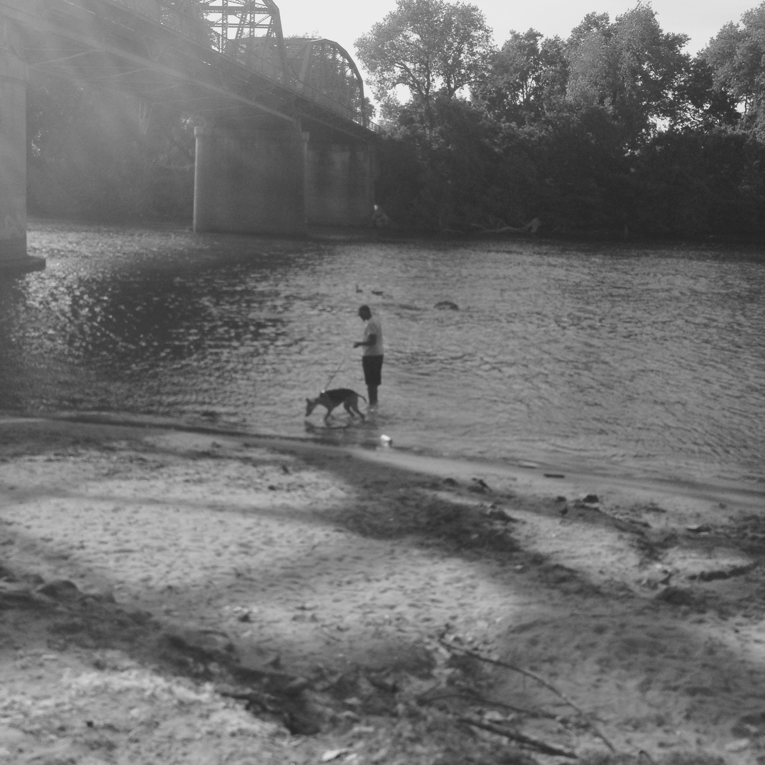 A man walking his dog in the water of the Sacramento River.